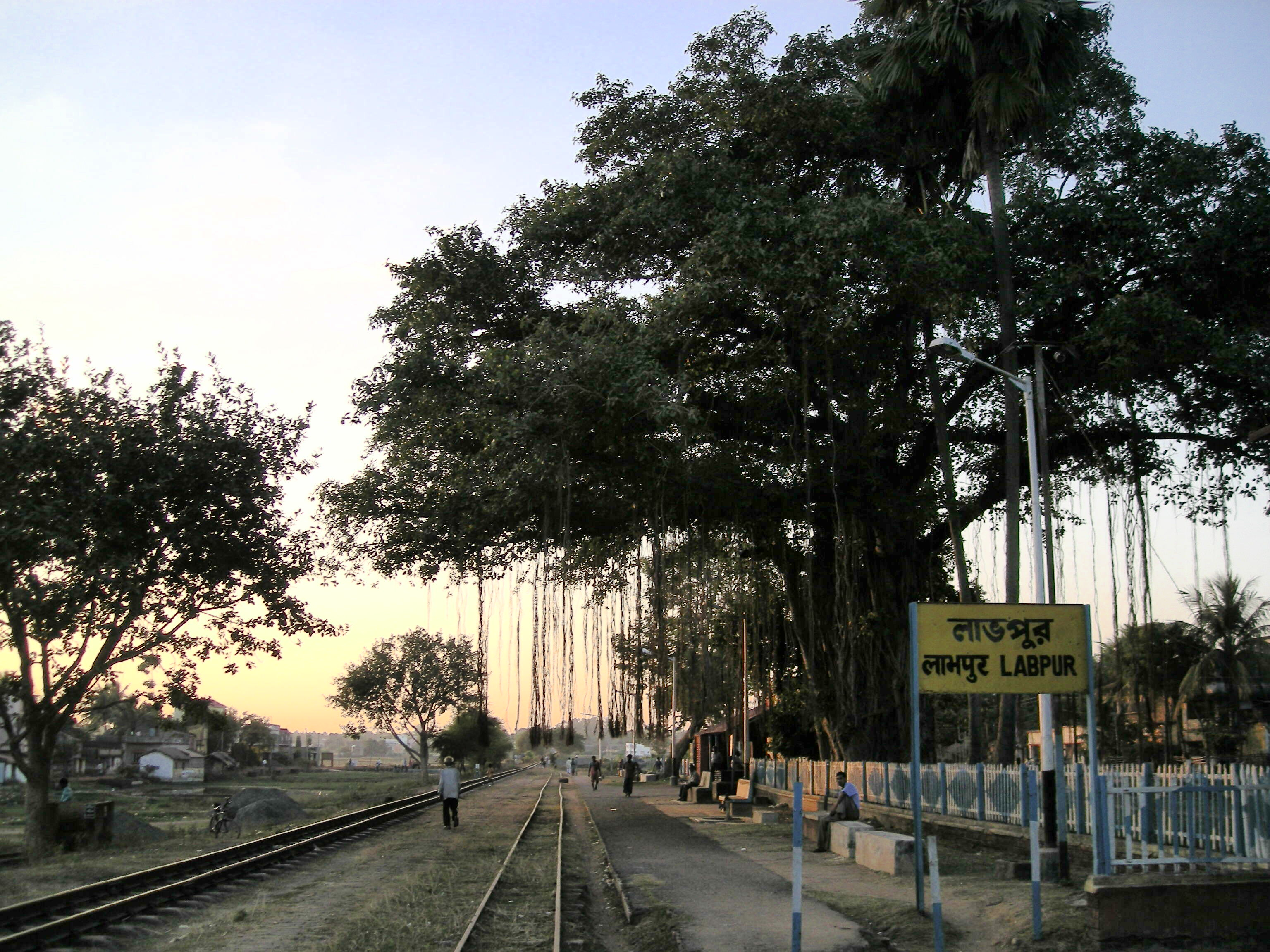 Katwa to Ahmedpur Narrow gaugue railway, Labhpur railway station, Birbhum.